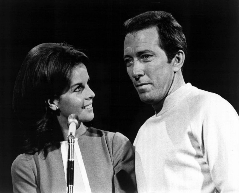 Photo of Claudine Longet and Andy Williams from the television program The Andy Williams Show. The couple was married at the time.